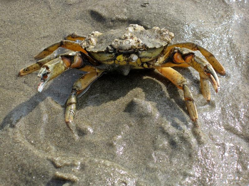 Carcinus maenas (Portunidae sp.), Brouwersdam, the Netherlands